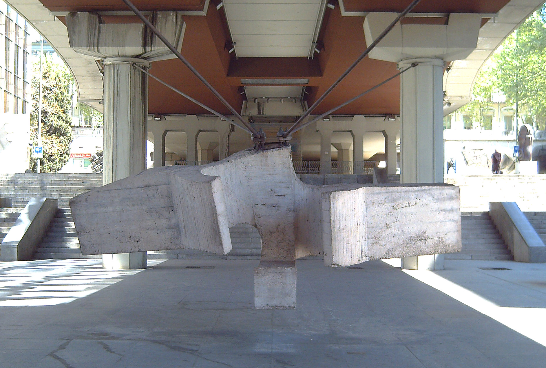 La sirena varada ("The Beached Mermaid", 1972). Sculpture by Eduardo Chillida (1924–2002) at the Public-Art Museum in Madrid (Spain), located at 41st Paseo de la Castellana (avenue).